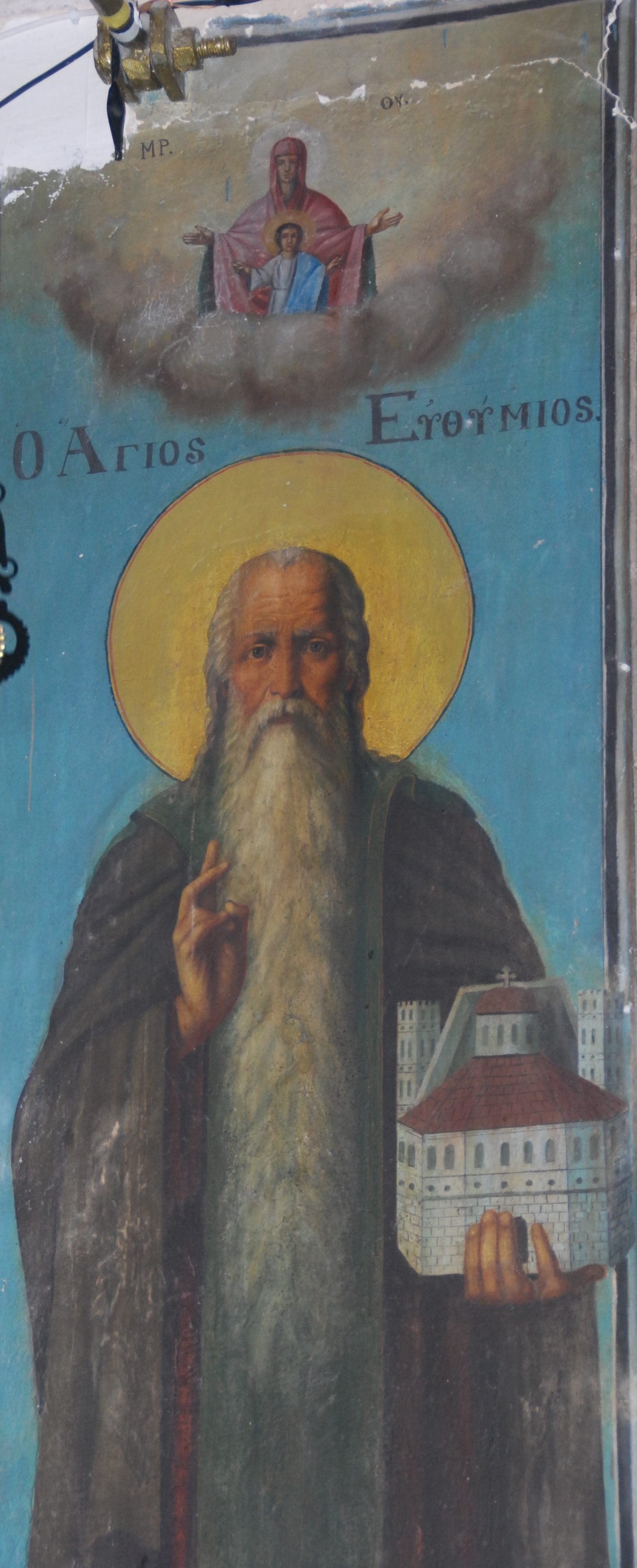 Saint Euthymius (377-473), often styled the Great, was an Abbot in Palestine. Venerated in both Roman Catholic and Eastern Orthodox Churches.